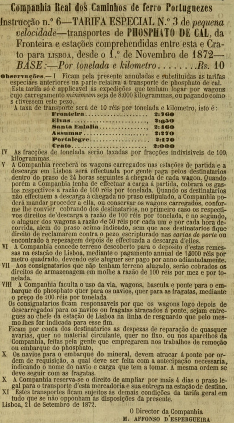 Advertisement of the Companhia Real dos Caminhos de Ferro Portugueses (Royal Company of the Portuguese Railways), showing the special fare n.º 3, for the transport of calcium oxide phosphate between Crato and the spanish border. This image was published on the Diario Illustrado newspaper No. 127, of 4th November 1872, and scanned by the Biblioteca Nacional de Portugal.